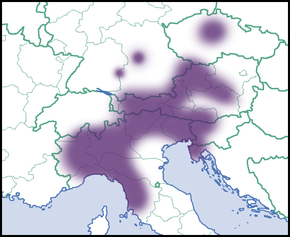 Oxychilus mortilleti (Pfeiffer, 1859). Distribution in Europe, scientific state of knowledge of 2012. Source description in English. Light colour indicated rare occurrences or regions where the species could eventually be expected to occur. Dark colour indicated relatively reliable occurrences, as well as regions where the species was expected to occur, and where the species was not known to be extremely rare. Dark colour indications were not necessarily based on published records. Species summary in AnimalBase